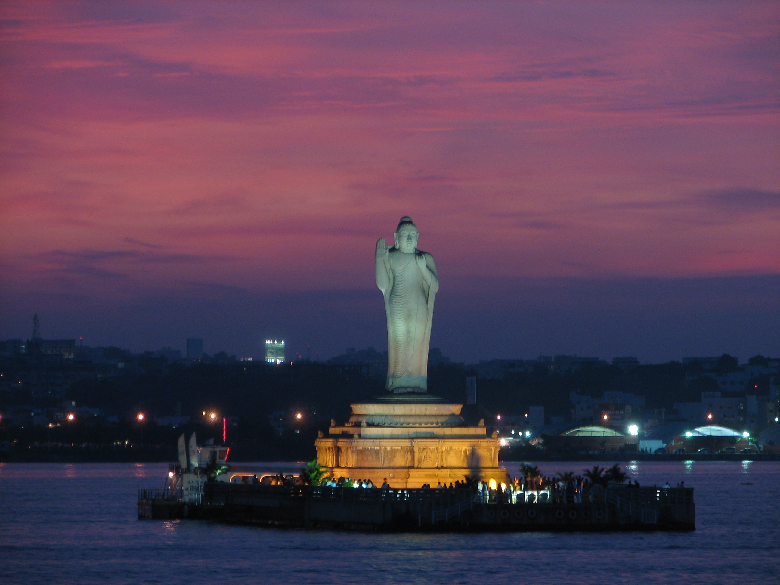 Its a bit of contrast, the white of detachment against the purple of the dusk. The Buddha statue at the Hussain Sagar